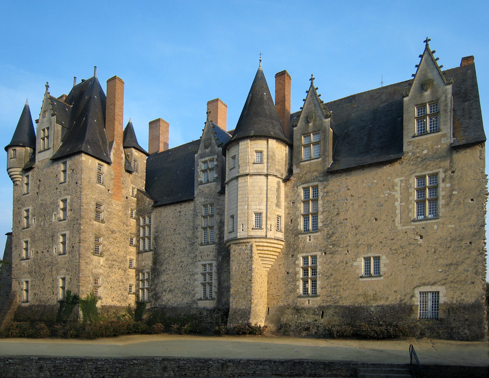 Castle of Baugé, home castle of the René, Duke of Anjou, also known as "King René", located in the village of Baugé in the county of Maine-et-Loire/France.